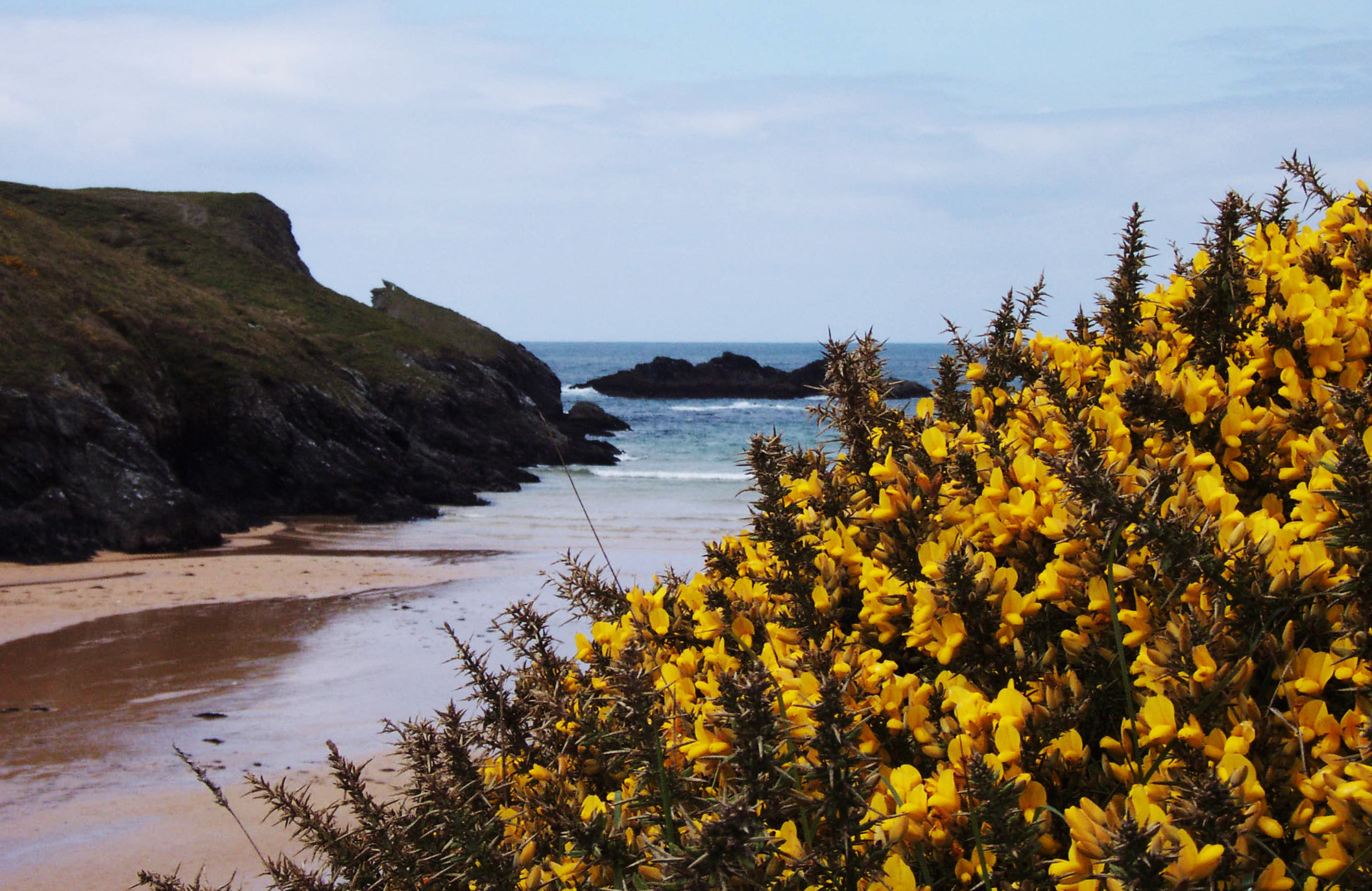 Description =Des ajoncs à Belle-Ile-En-Mer Source =Photo taken by Remi Jouan Date =Avril 2001 Author =Remi Jouan